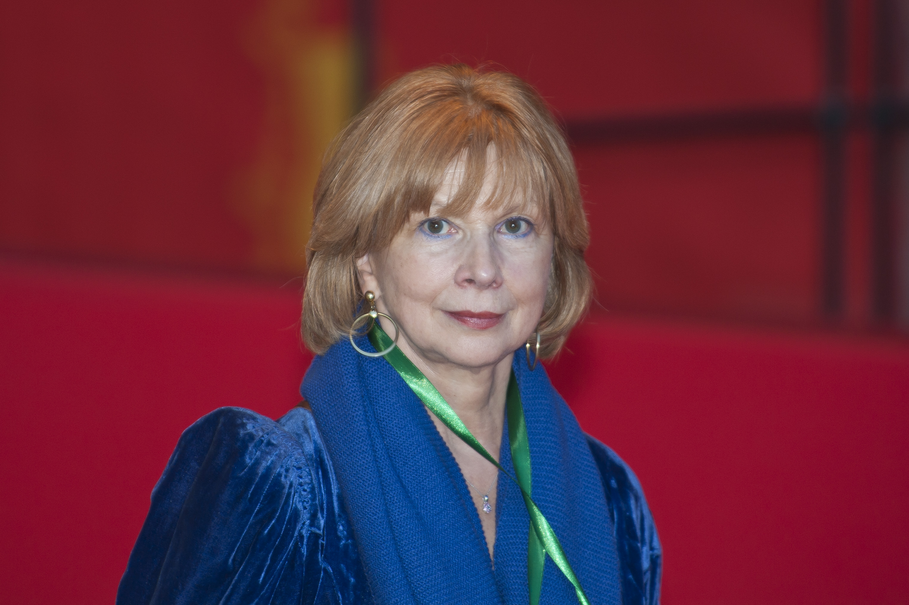 Ursela Monn at the premiere of the movie Margin Call at the Berlin Film Festival 2011